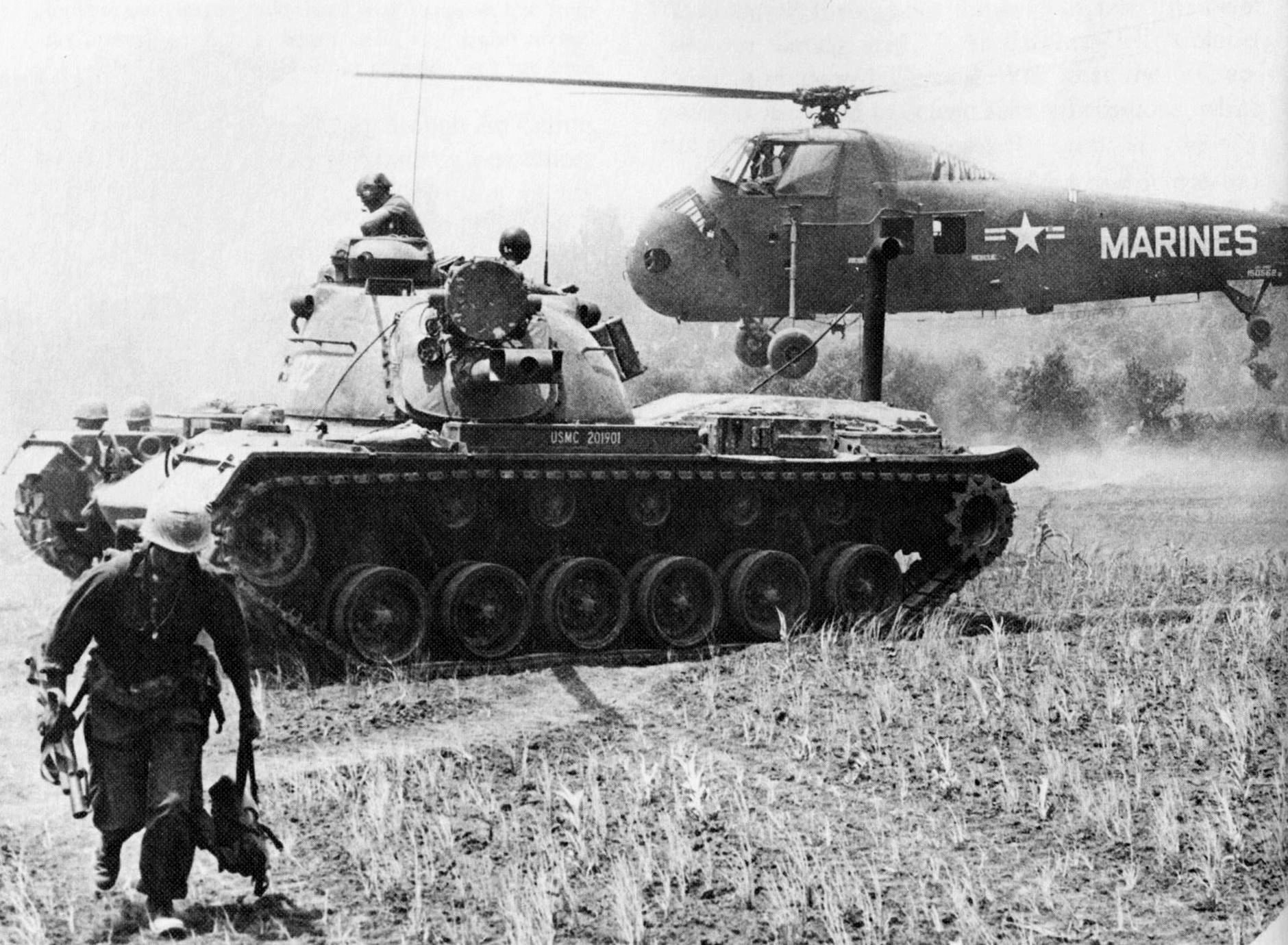 A MAG-16 helicopter evacuates STARLITE casualties, while a Marine M-48 tank stands guard. The Marine on the left carries a M-79 grenade launcher.